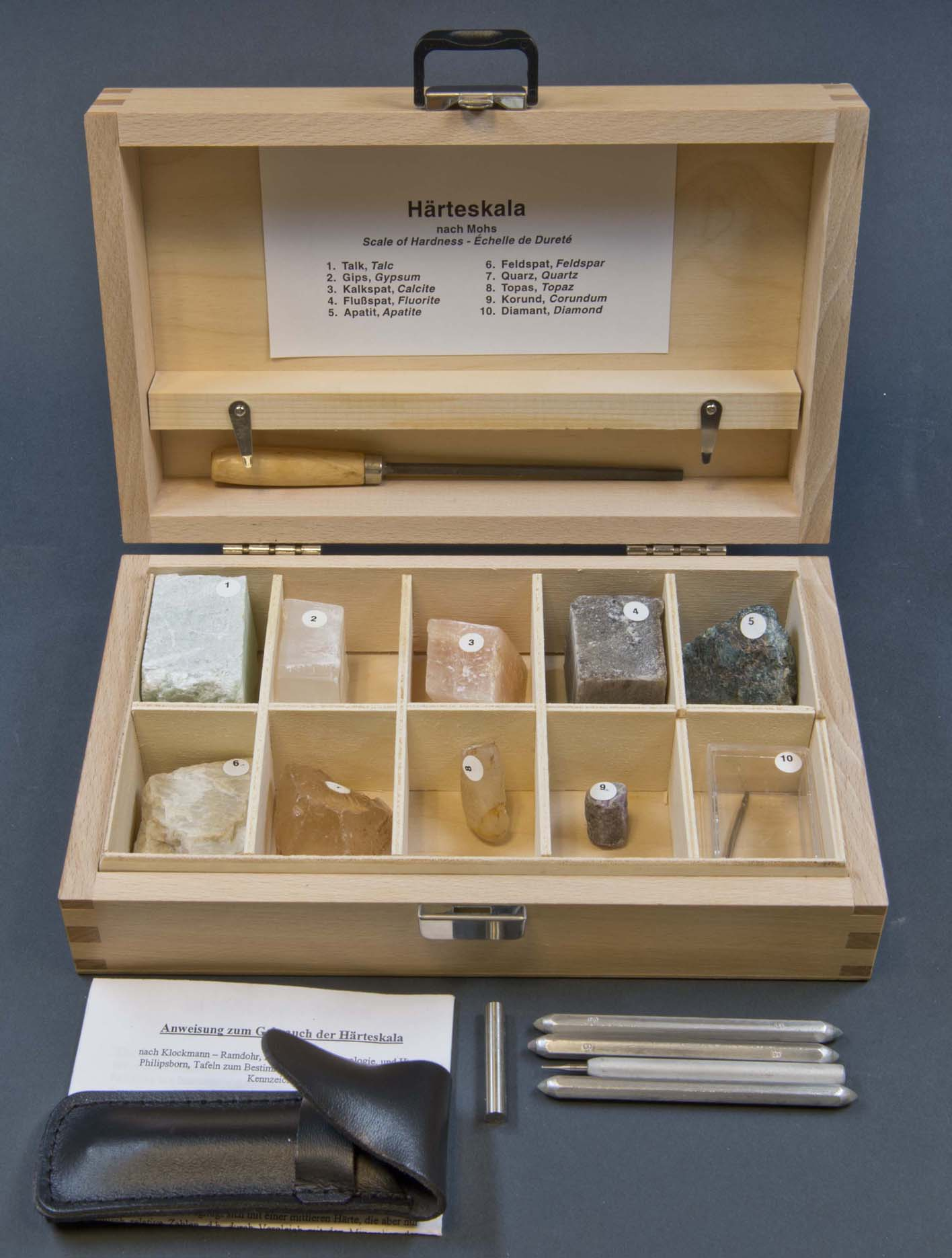 Tools to measure hardness of minerals, using minerals of Mohs' scale of hardness.